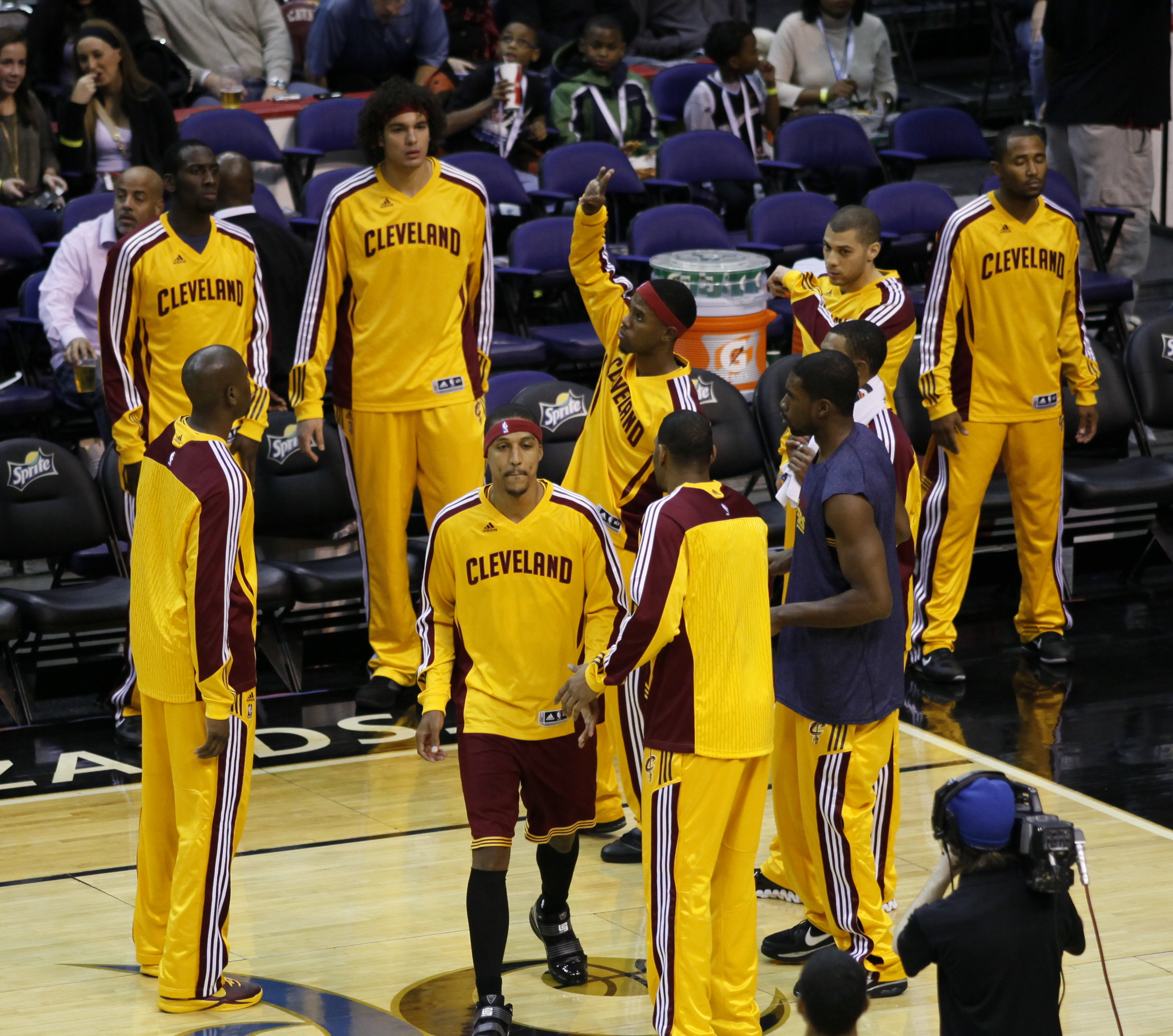 Jamario Moon of the Cleveland Cavaliers introduced at the Verizon Center. Washington Wizards v/s Cleveland Cavaliers November 6, 2010